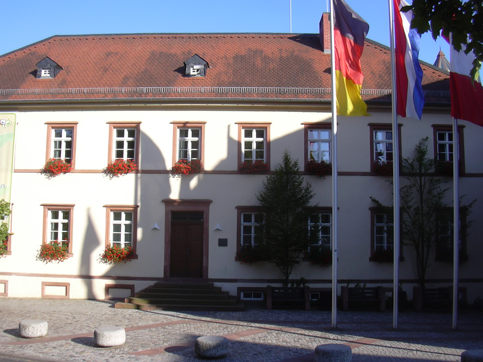 Town Hall, 19th century part, Alzenau, near Aschaffenburg, Bavaria/Germany